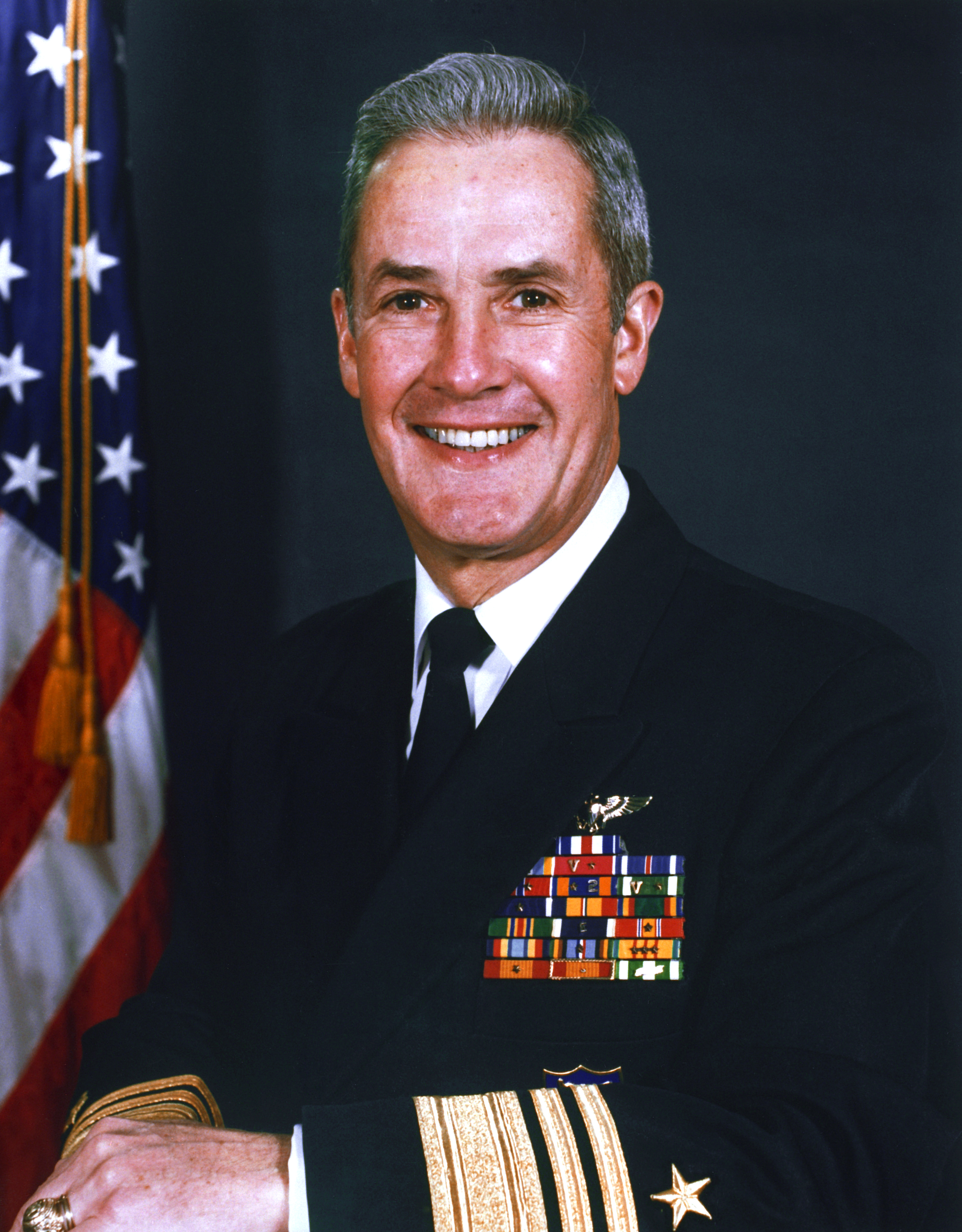 Vice Admiral (VADM) Edward H. Martin, United States Navy